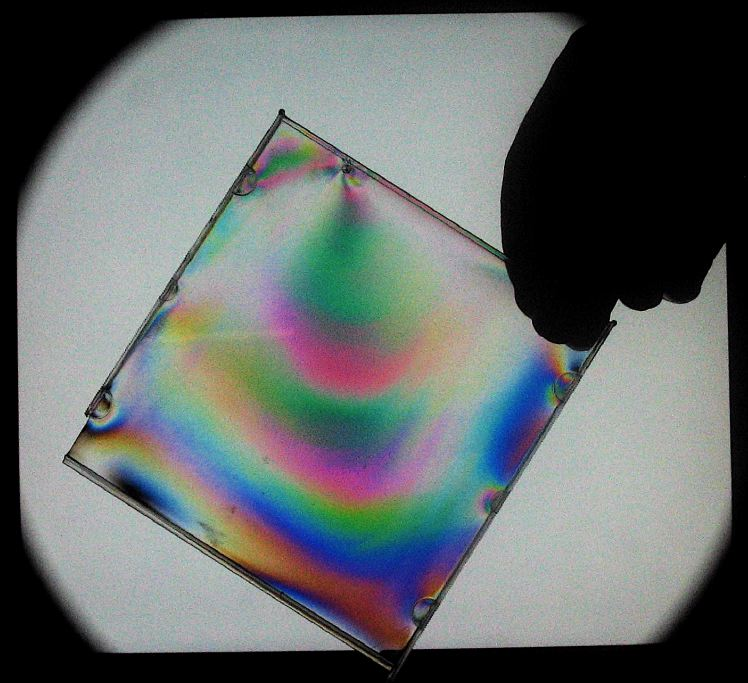 Picture of a CD plastic cover between a polarizer and a flat screen monitor. The flat screen light is polarized, so the birefringence of the plastic layer shows colored fringes after the polarizer. Also called Photoelasticimetry or Photoelasticity. Made by me.